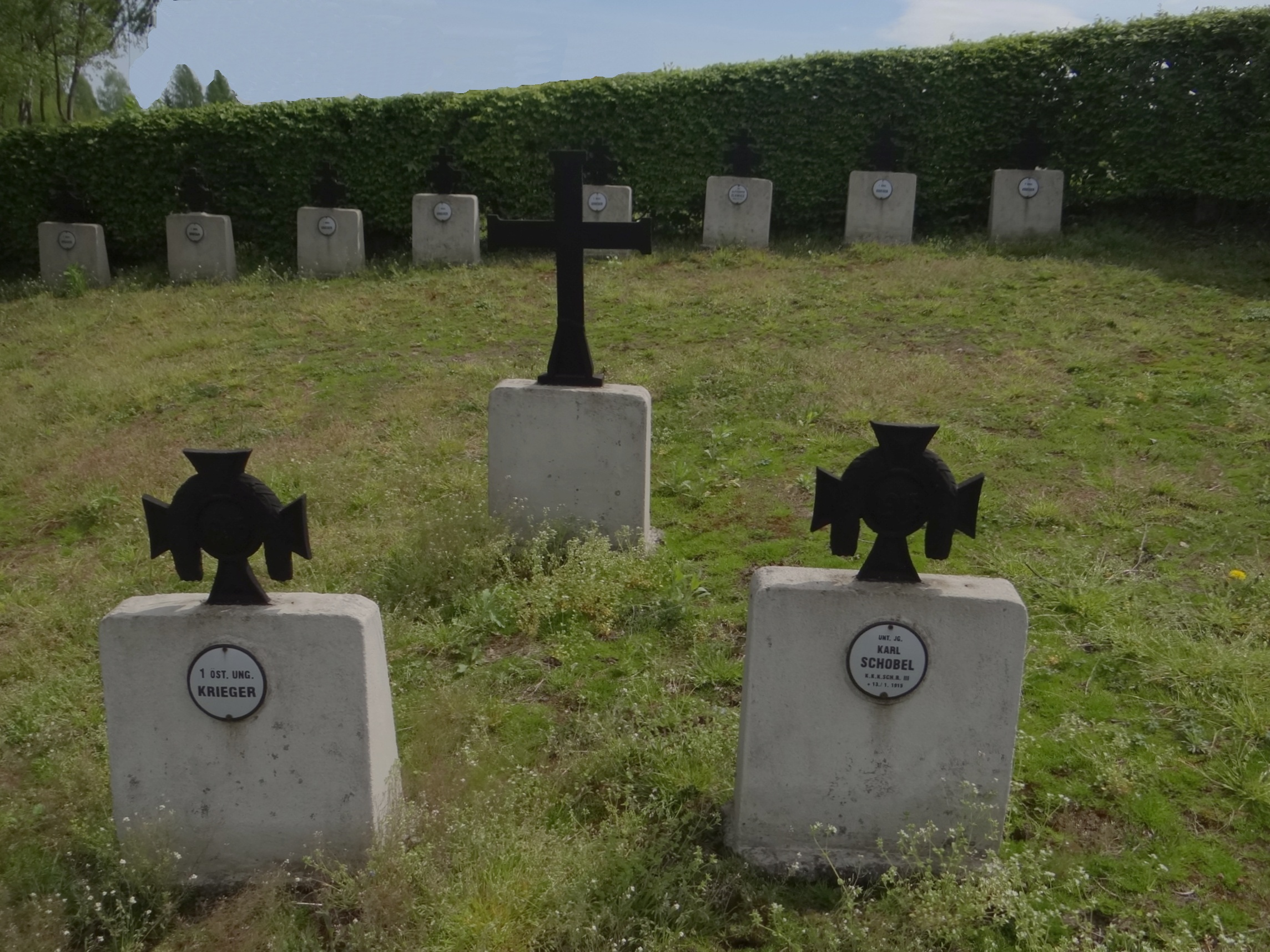 World War I Cemetery nr 154 in Chojnik-Zadziele